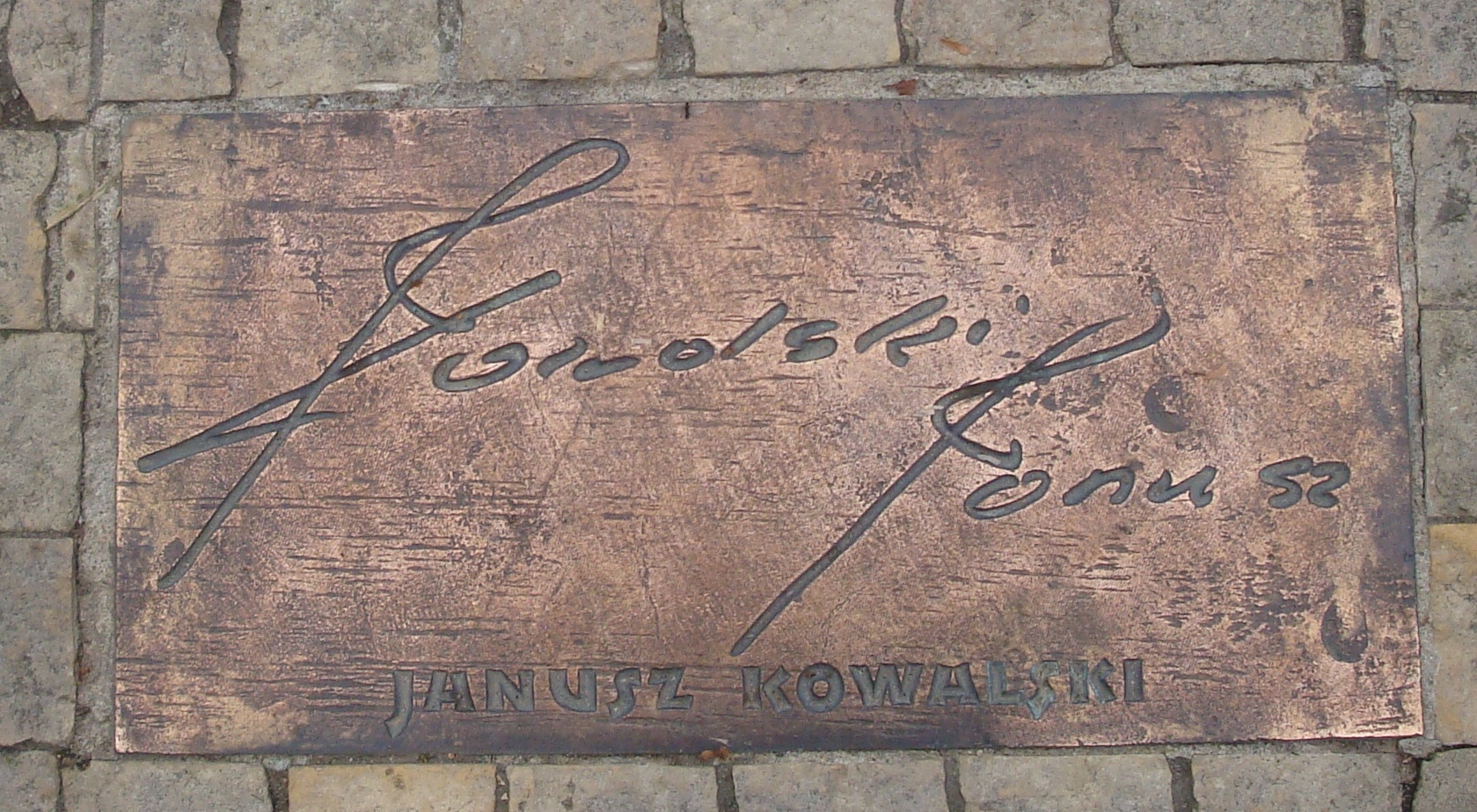 Polish Cycling Walk of Fame in Nałęczów, Poland. Signature of Janusz Kowalski